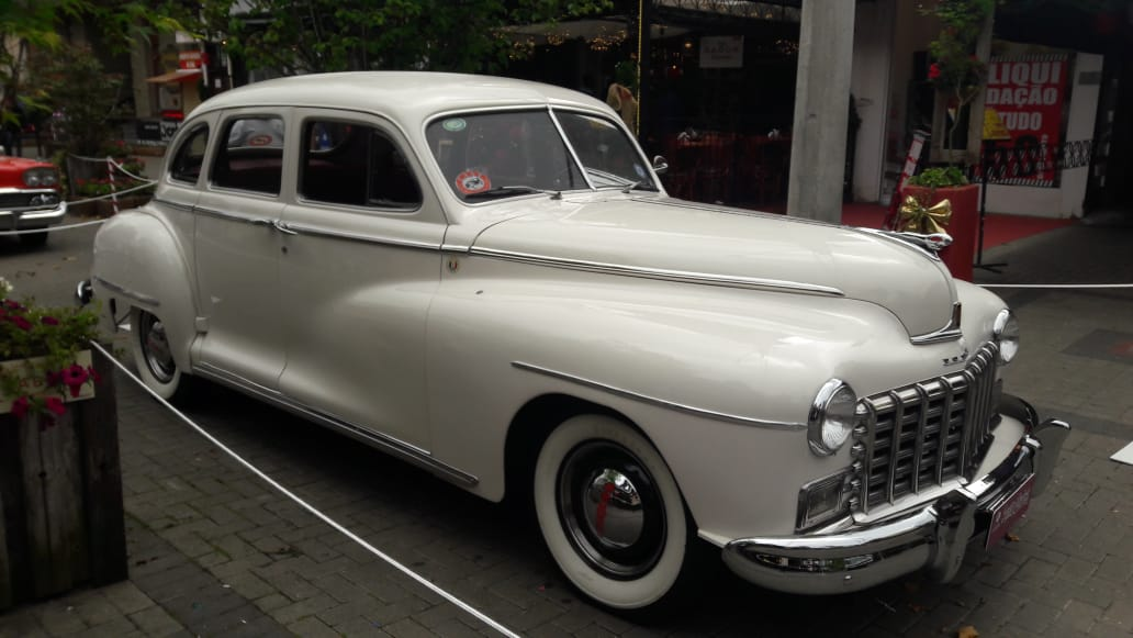 For classic Dodge lovers.